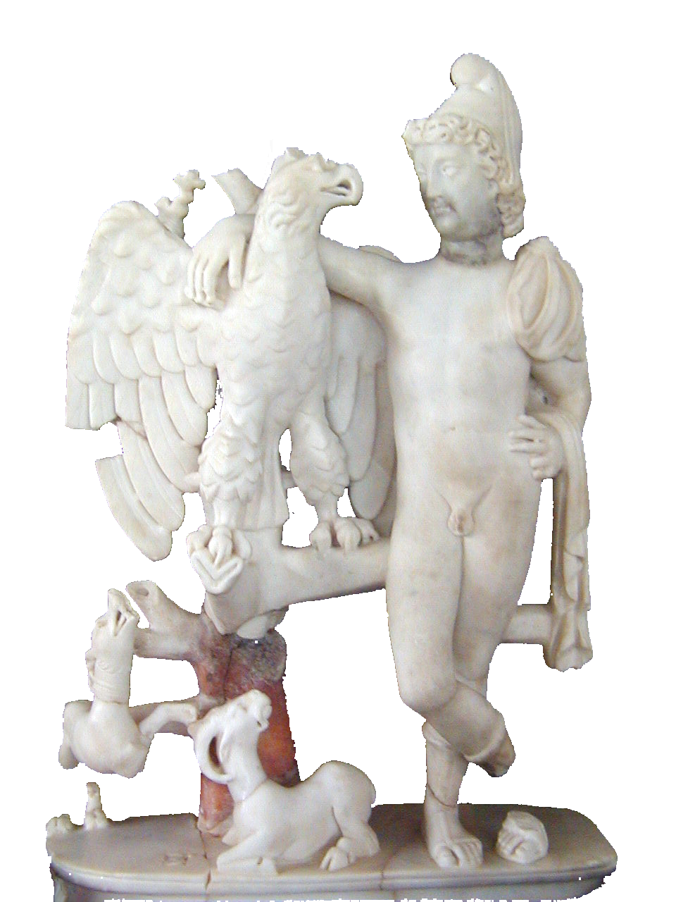 Ganymede statuette, exposed at the Carthage Paleo-Christian Museum